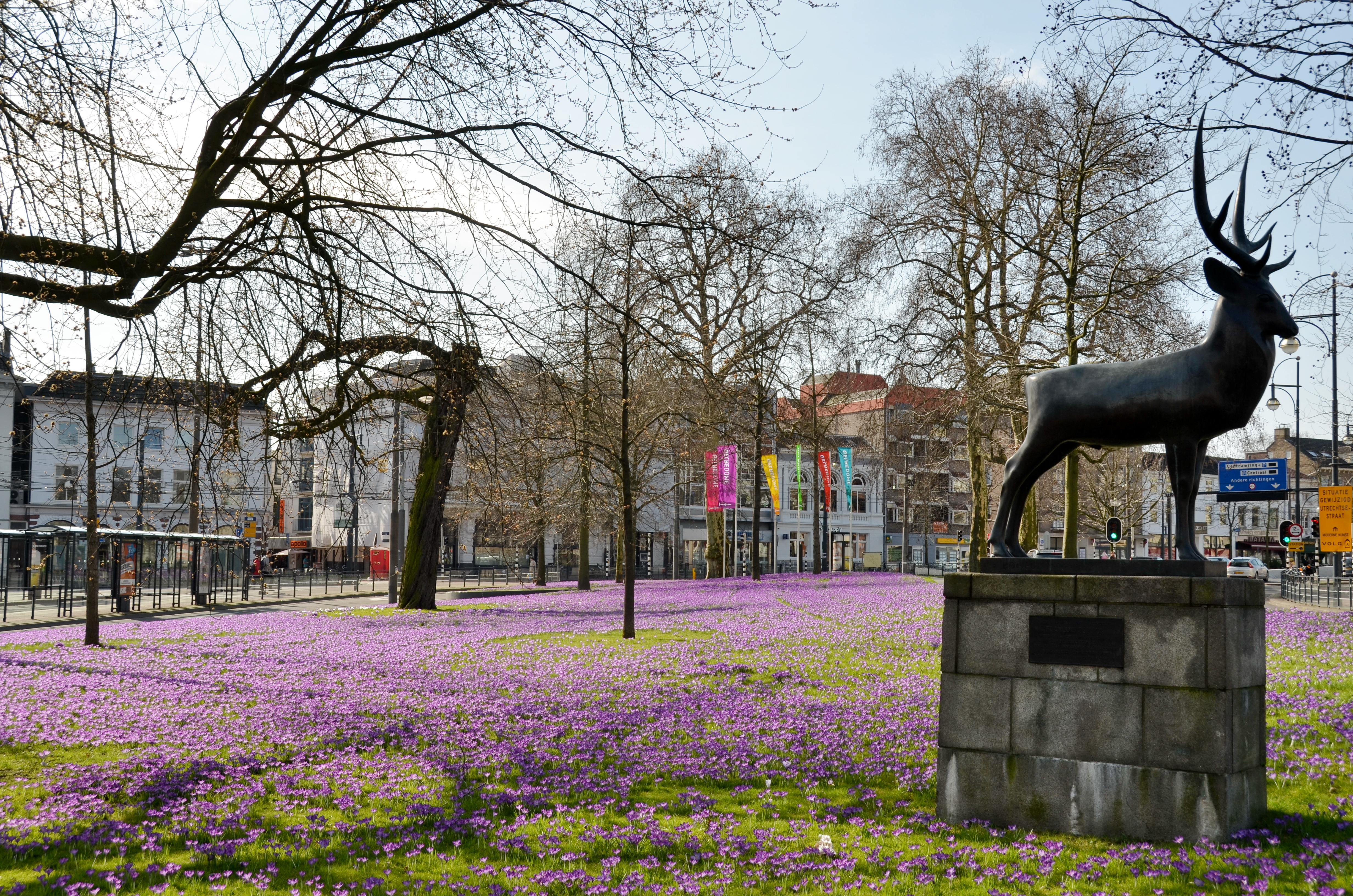 The famous "deer" statue at Willemsplein Arnhem, showing that Arnhem has a lot of nature and is involved with the "Hoge Veluwe" National Park